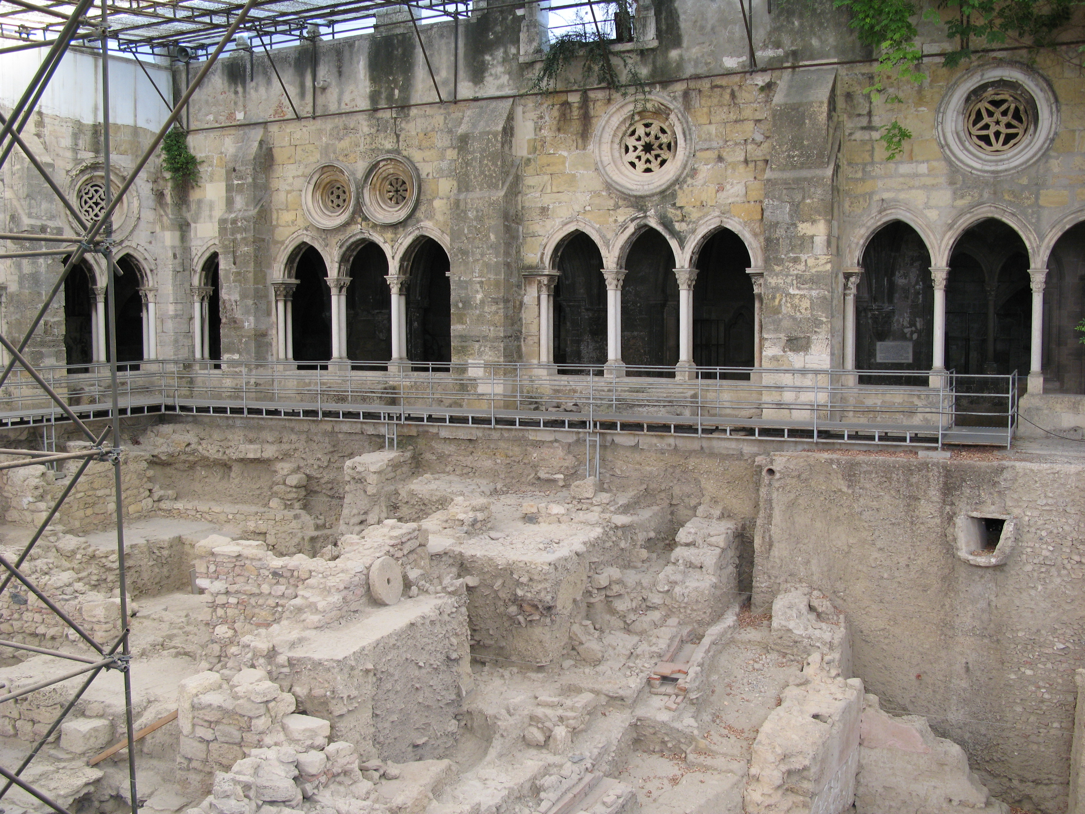 Cloisters of Lisbon Cathedral and archaeological excavations